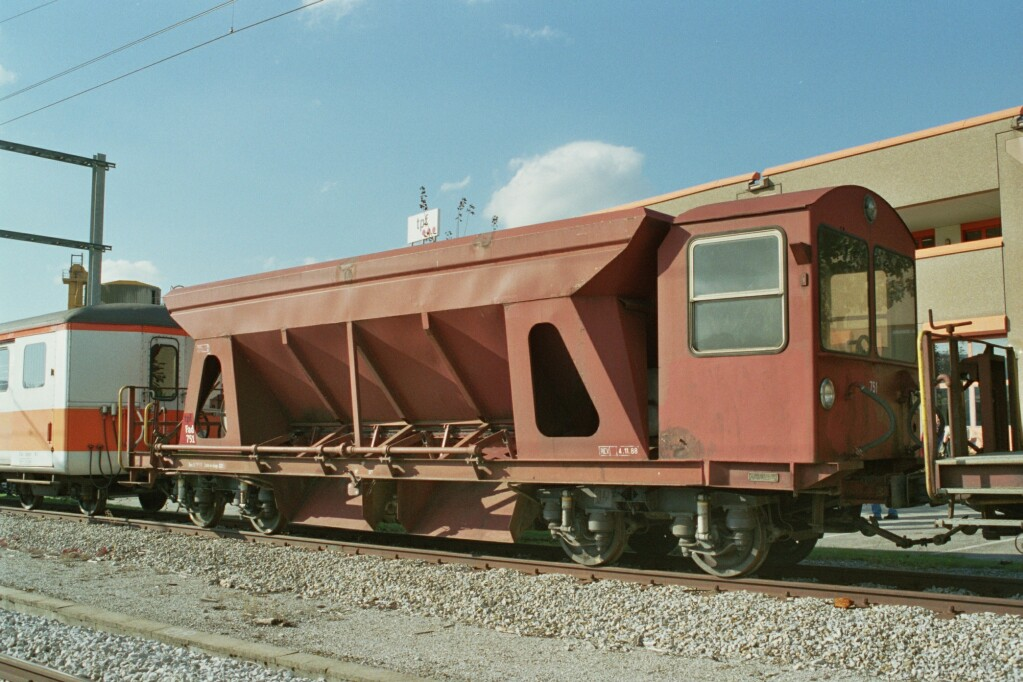 Former driving trailer Fad 751 of tpf in Bulle-Planchy